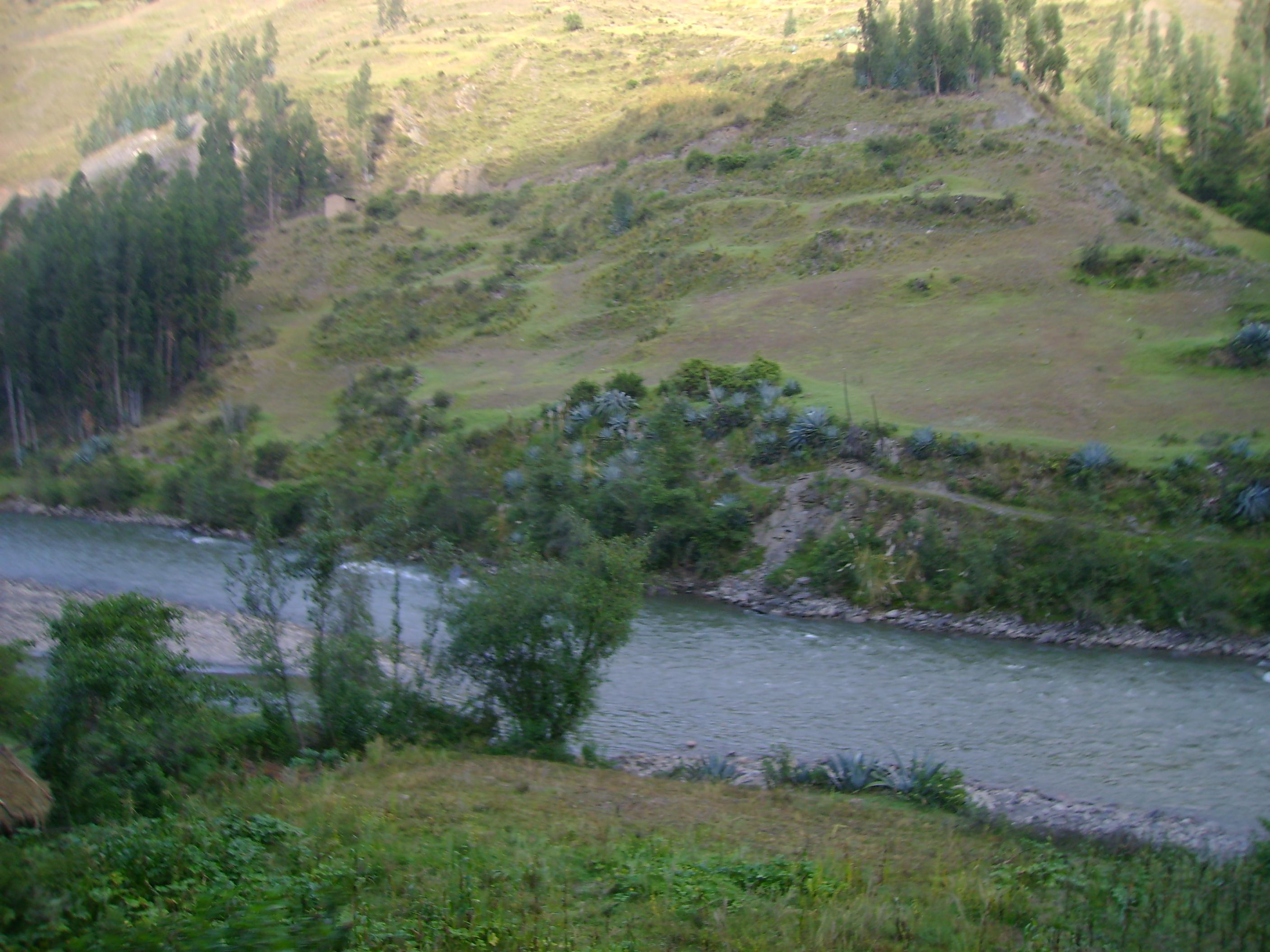 Marañón river.